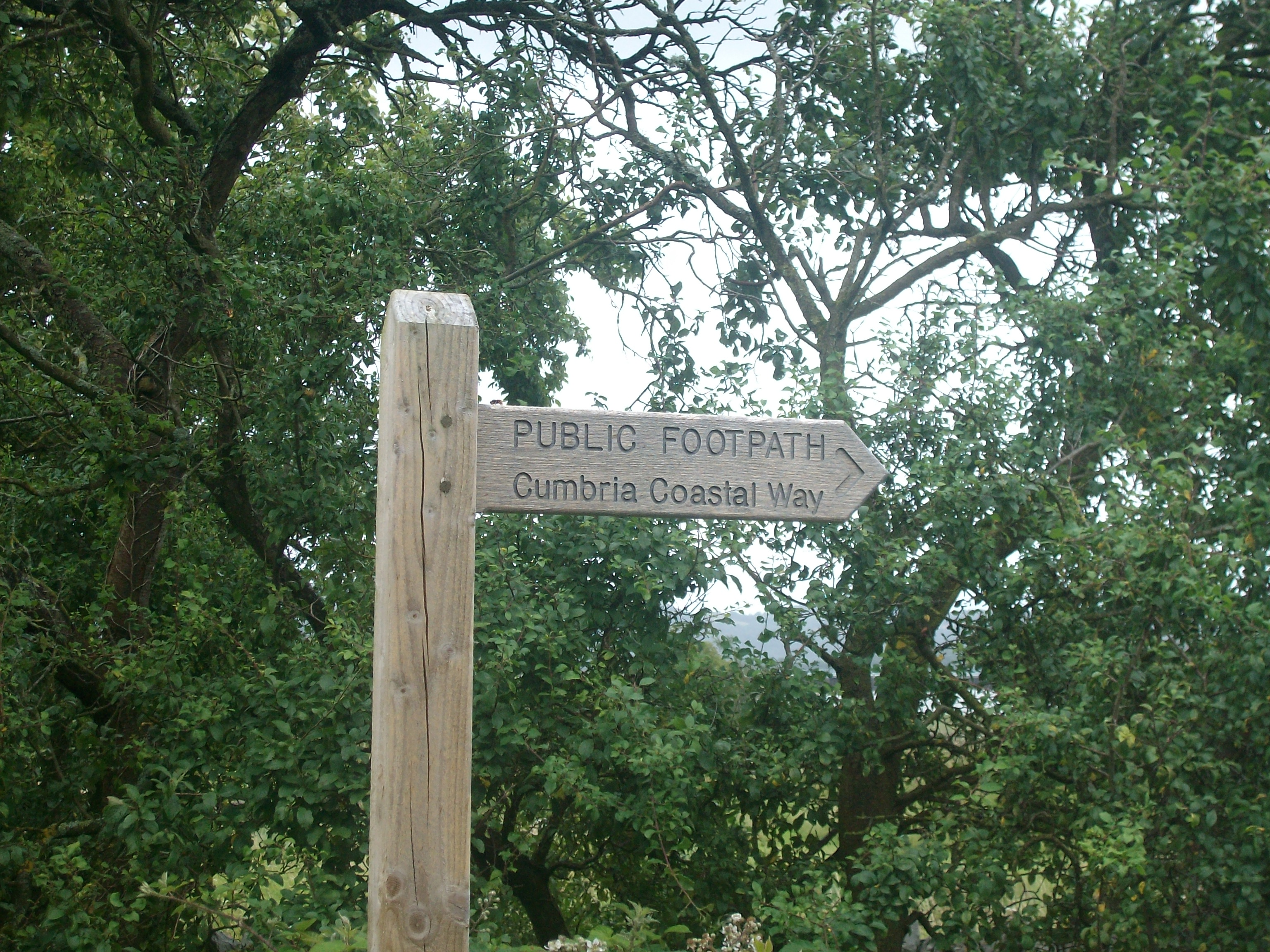 A sign for the Cumbria Coastal Way, near Plumpton Hall, which is near the foot of the Ulverston Canal